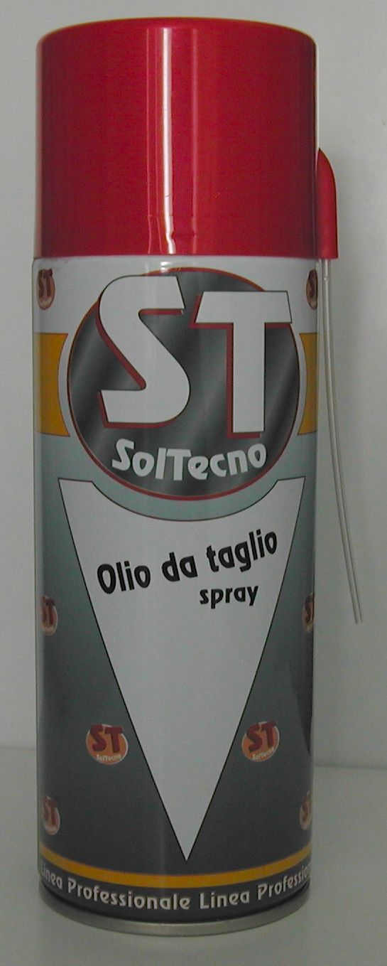 Spray cutter oil